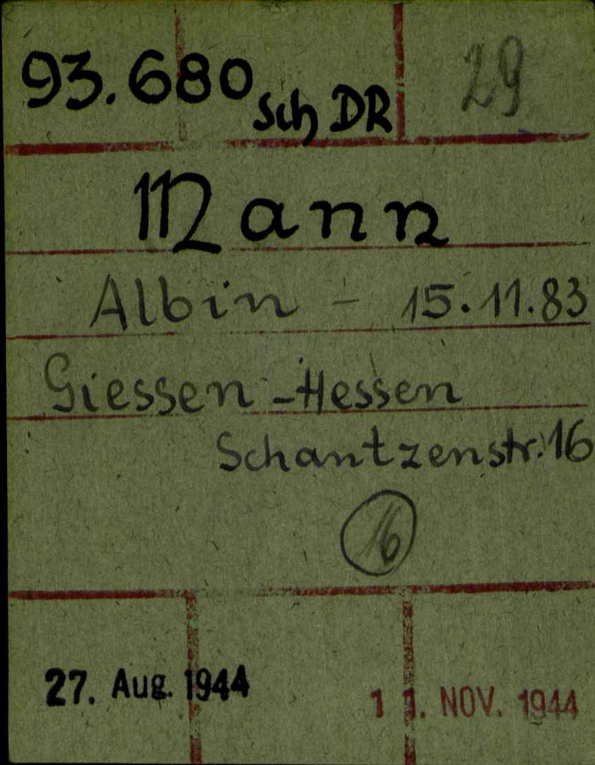 Registration card of Albin Mann as a prisoner at Dachau Nazi Concentration Camp.